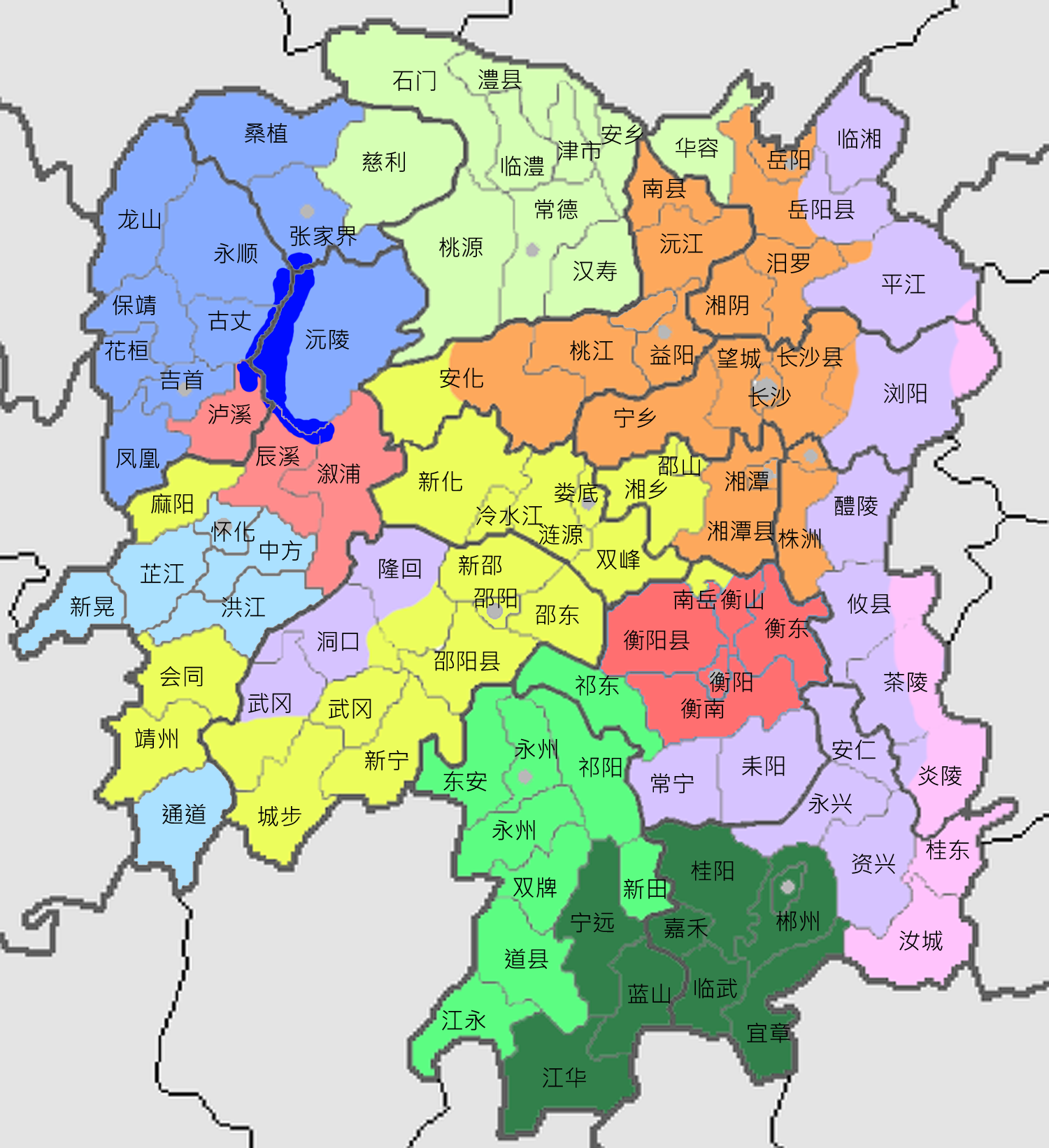 The Chinese dialogue of Xiang